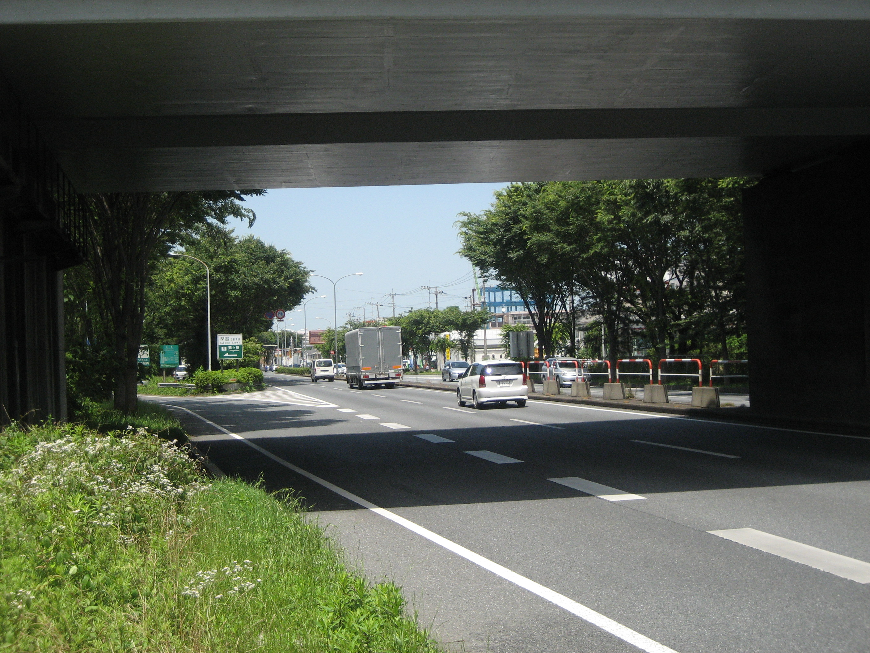 Entrance to Tsurugashima Interchange on the Kan-etsu Expressway